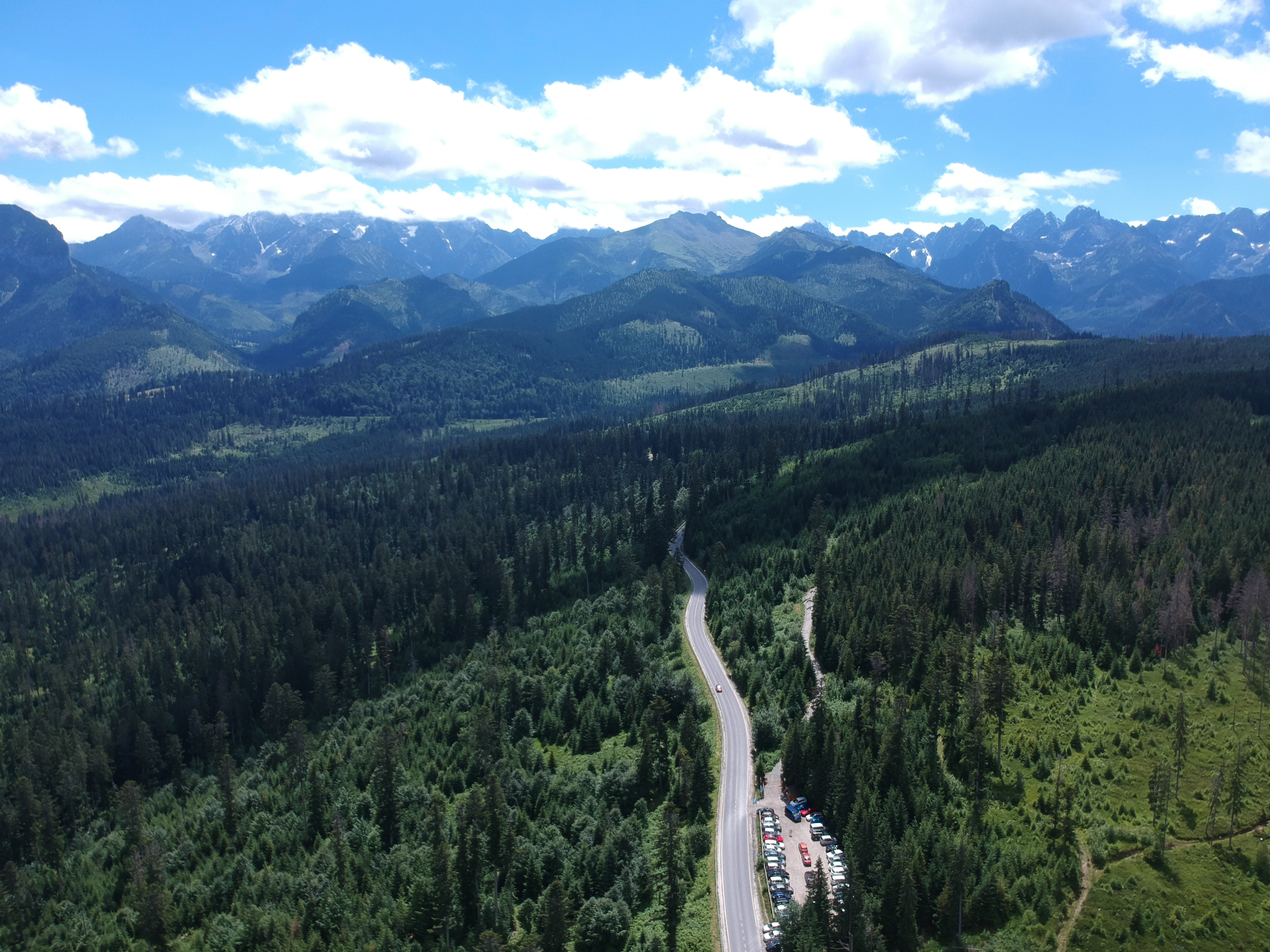 Tatra mountains view from air